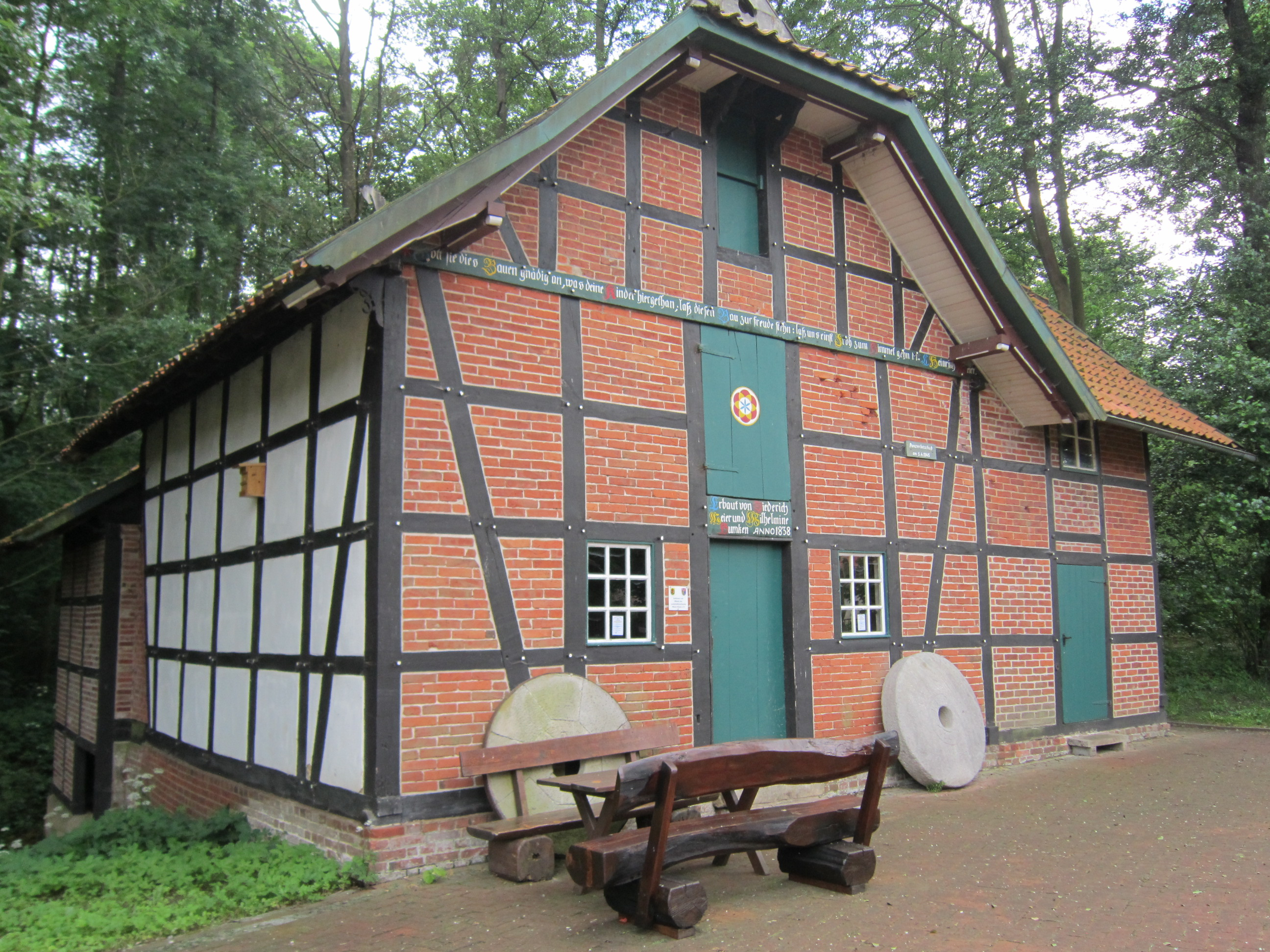 Watermill in Harrienstedt (Landkreis Nienburg, Lower Saxony)